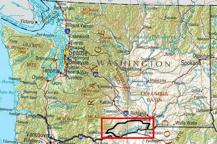 Modified map used to show the Horse Heaven Hills AVA within Washington State. Original public domain image locate at Perry-CastaÃ±eda Library Map Collection provided by U.S. Geological Survey 2001, printed 2002 Modified copied similarly released to public domain.